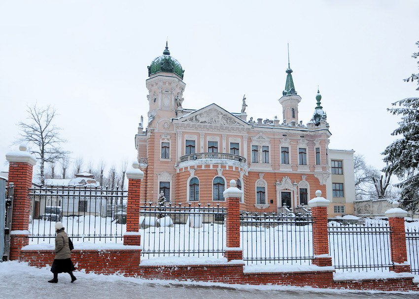 National Museum in Lviv, Ukraine - Dunikovsky villa